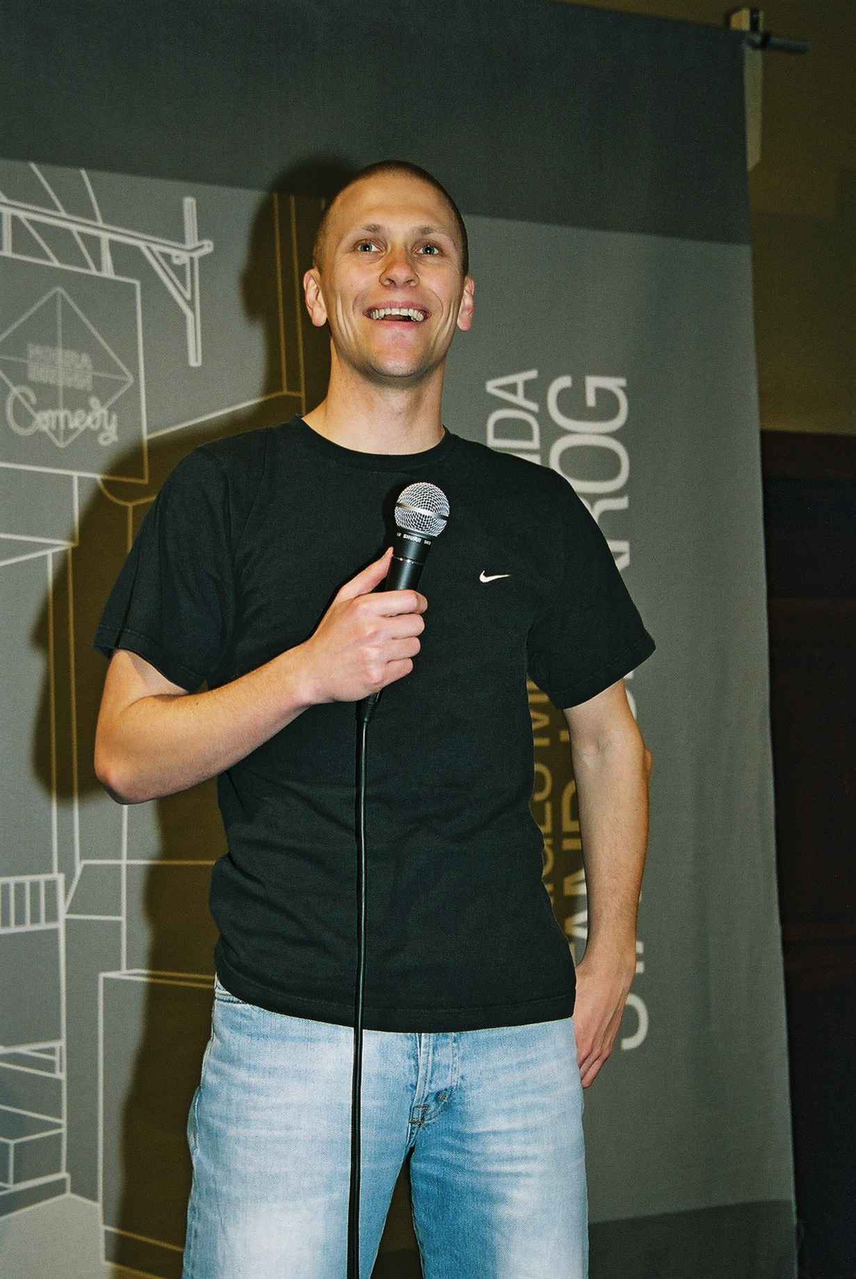 The swedish comedian Magnus Betnér